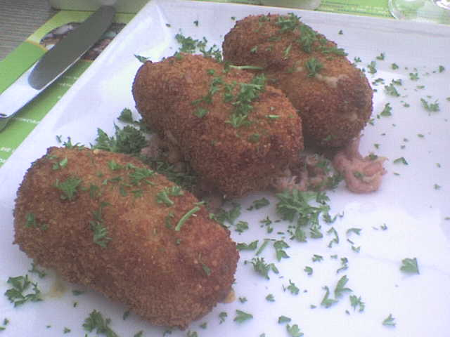 croquette shrimp flemmish art